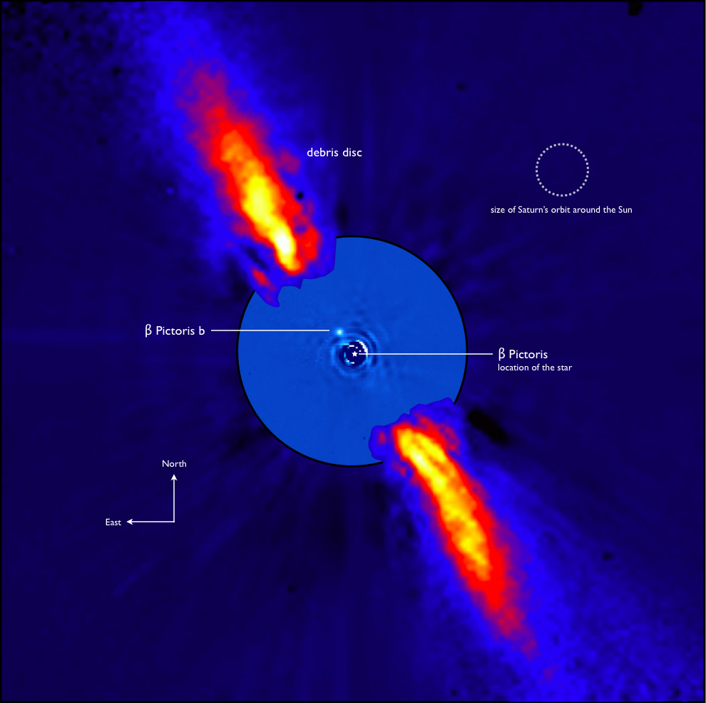 This composite image represents the close environment of Beta Pictoris as seen in near infrared light. This very faint environment is revealed after a very careful subtraction of the much brighter stellar halo. The outer part of the image shows the reflected light on the dust disc, as observed in 1996 with the ADONIS instrument on ESO's 3.6 m telescope; the inner part is the innermost part of the system, as seen at 3.6 microns with NACO on the Very Large Telescope. The newly detected source is more than 1000 times fainter than Beta Pictoris, aligned with the disc, at a projected distance of 8 times the Earth-Sun distance. Both parts of the image were obtained on ESO telescopes equipped with adaptive optics.